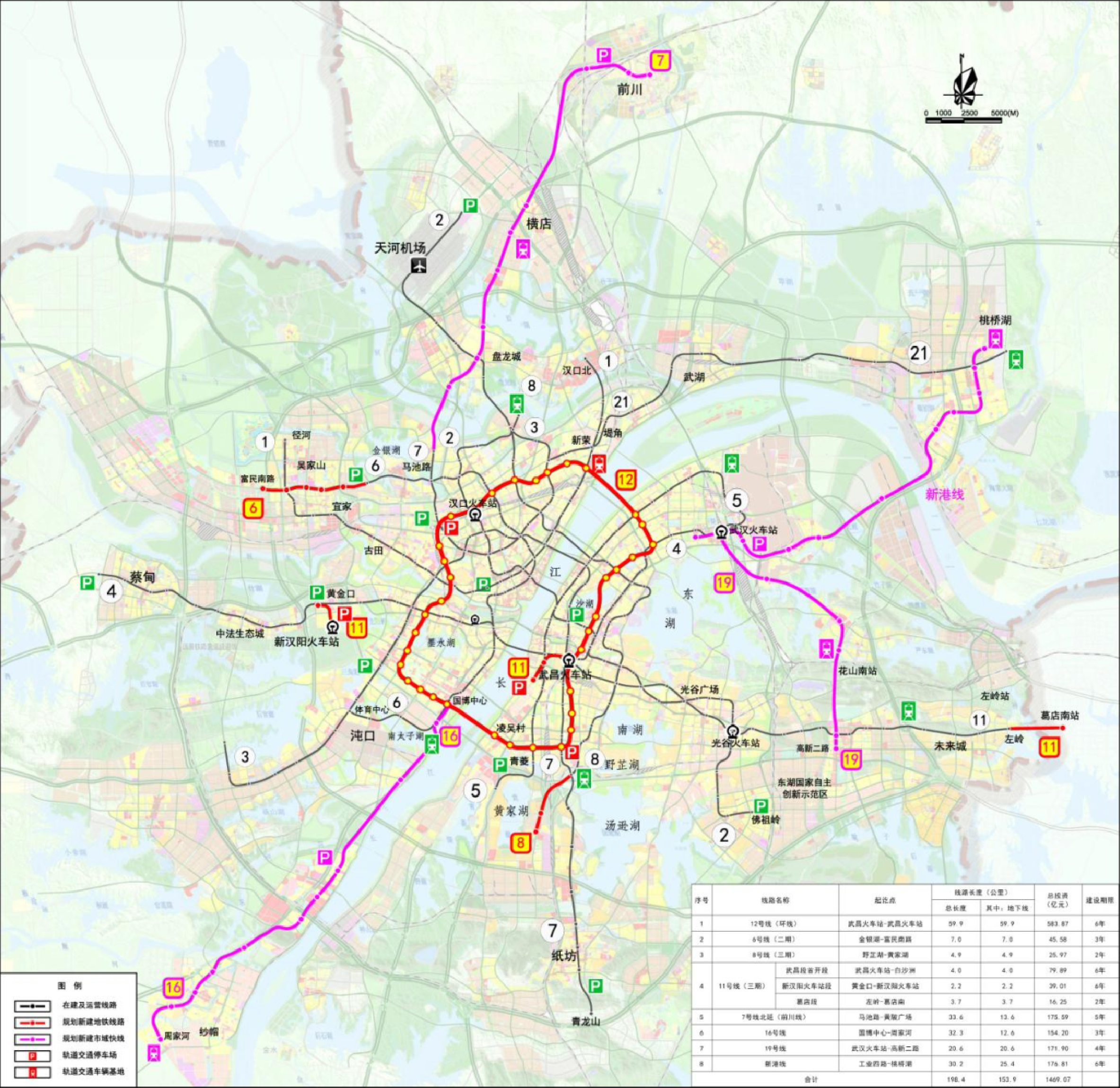 Wuhan Metro Phase IV Construction Plan（2019-2024）Diagram, in which the red and purple lines with a total length of 198.4km were newly approved on 25 December 2018, and the other gray parts are under construction or in operation